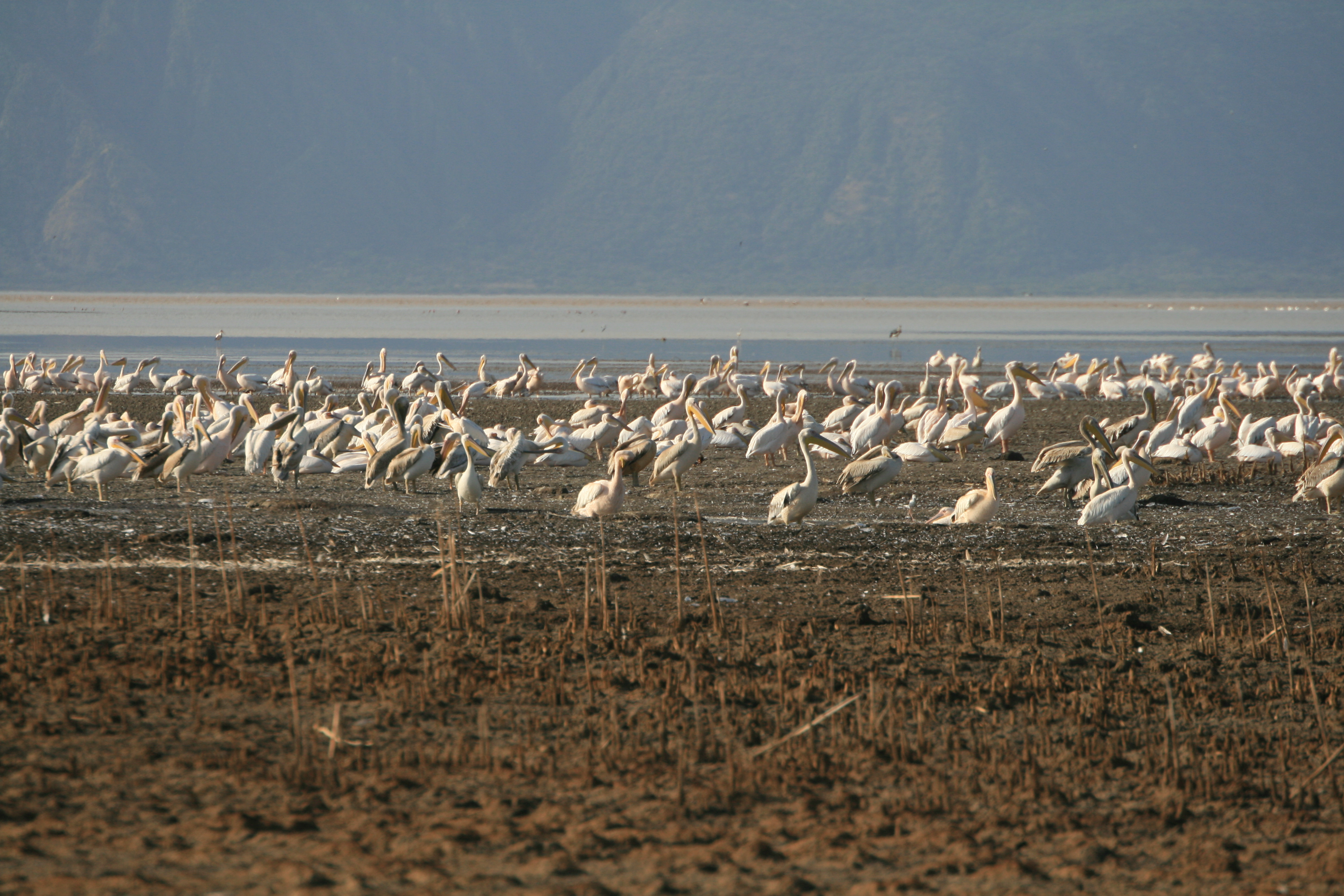 Pelikans (Pelecanus onocrotalus) on the salty lakeshore